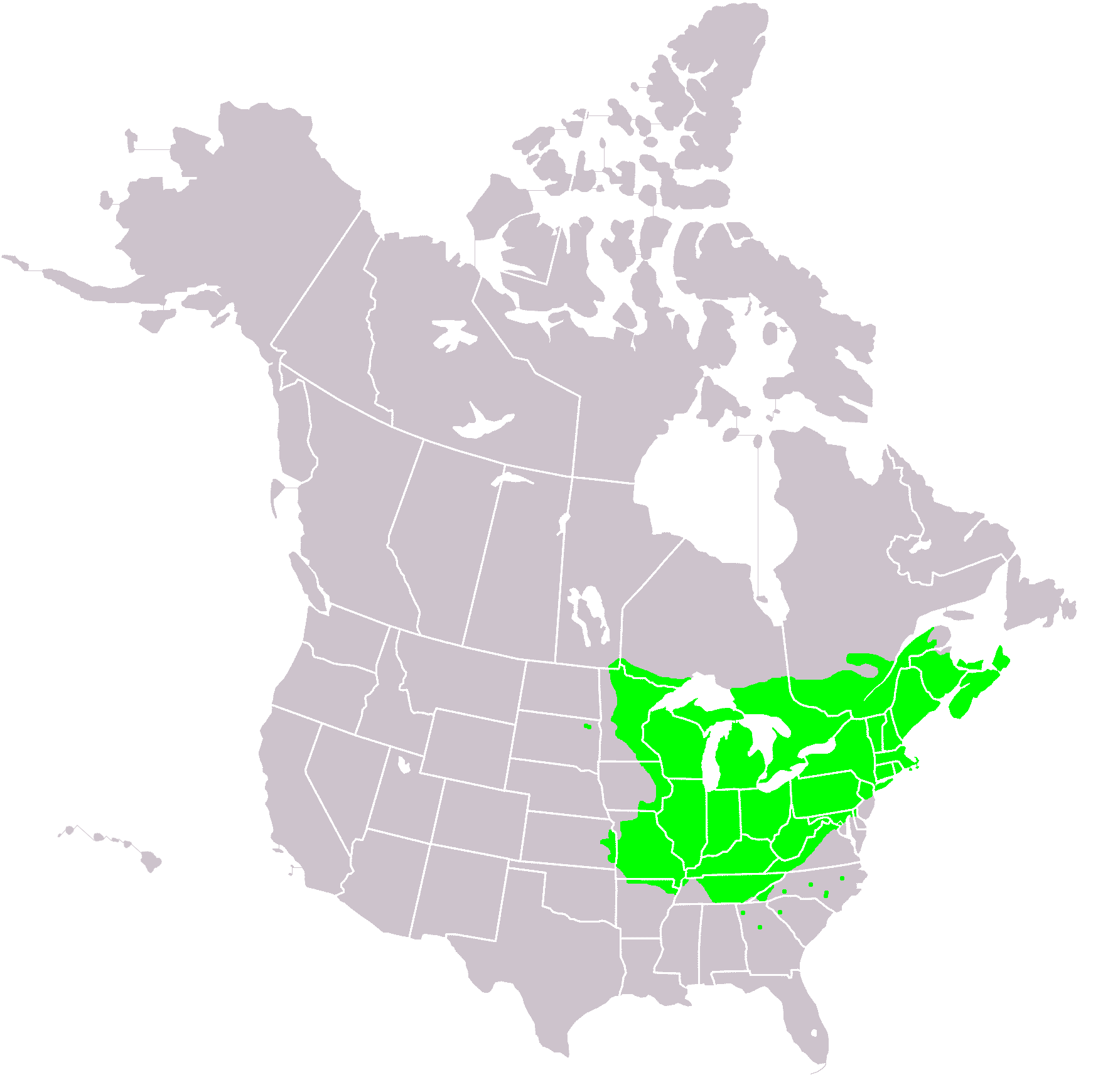 Range map for Acer saccharum in eastern North America.